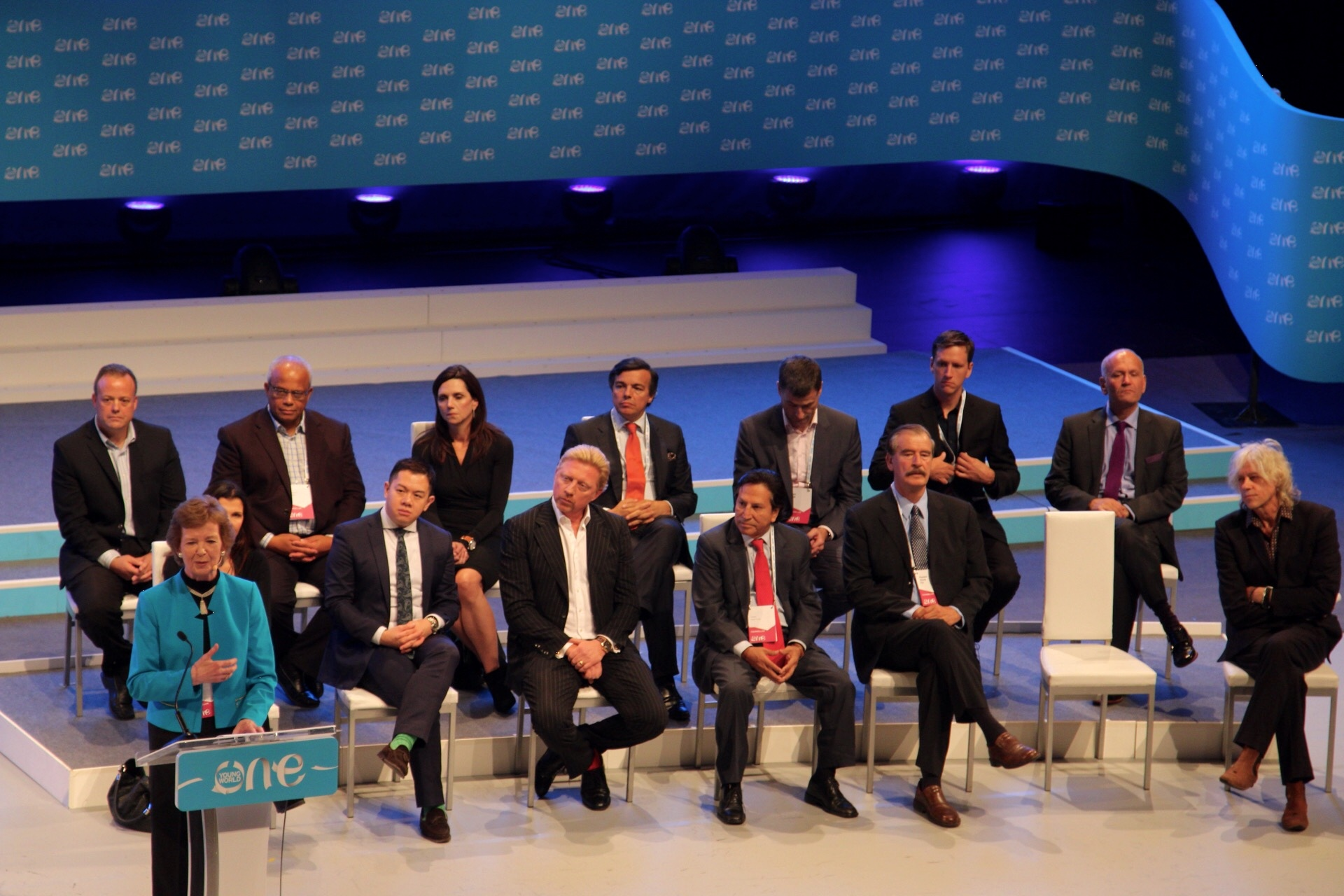 Opening Ceremony of One Young World 2014 in Dublin, Ireland. Mary Robinson addressing the audience.